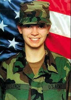 An undated photo of Army Private First Class Jessica Lynch (DoD photo)